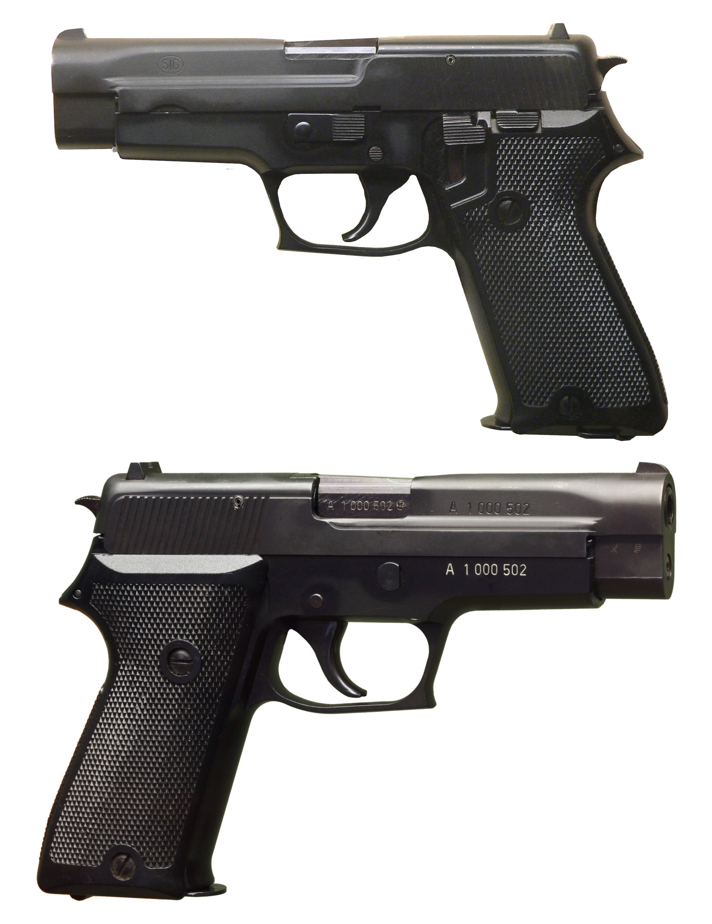 SIG P220. On display at Morges military museum.